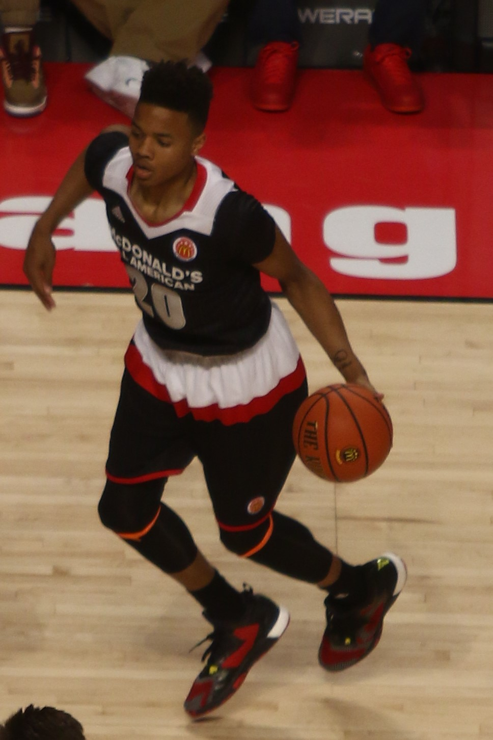 Markelle Fultz at the w:2016 McDonald's All-American Boys Game